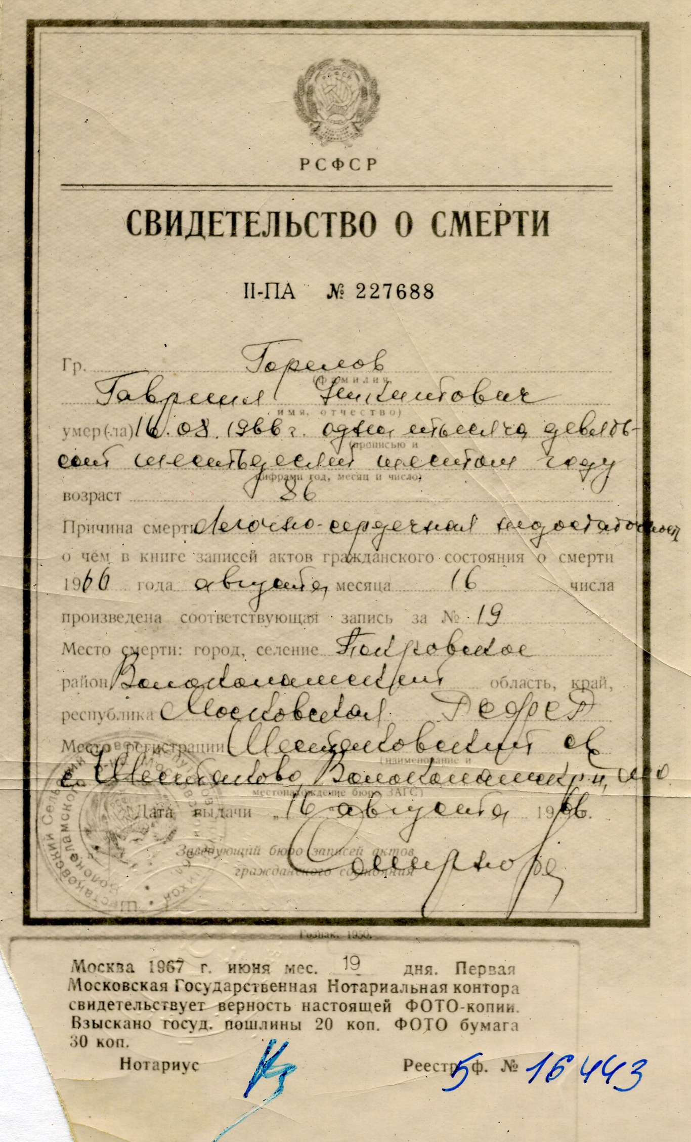 Gorelov Gavriil "Soviet Union (USSR). Death certificate"